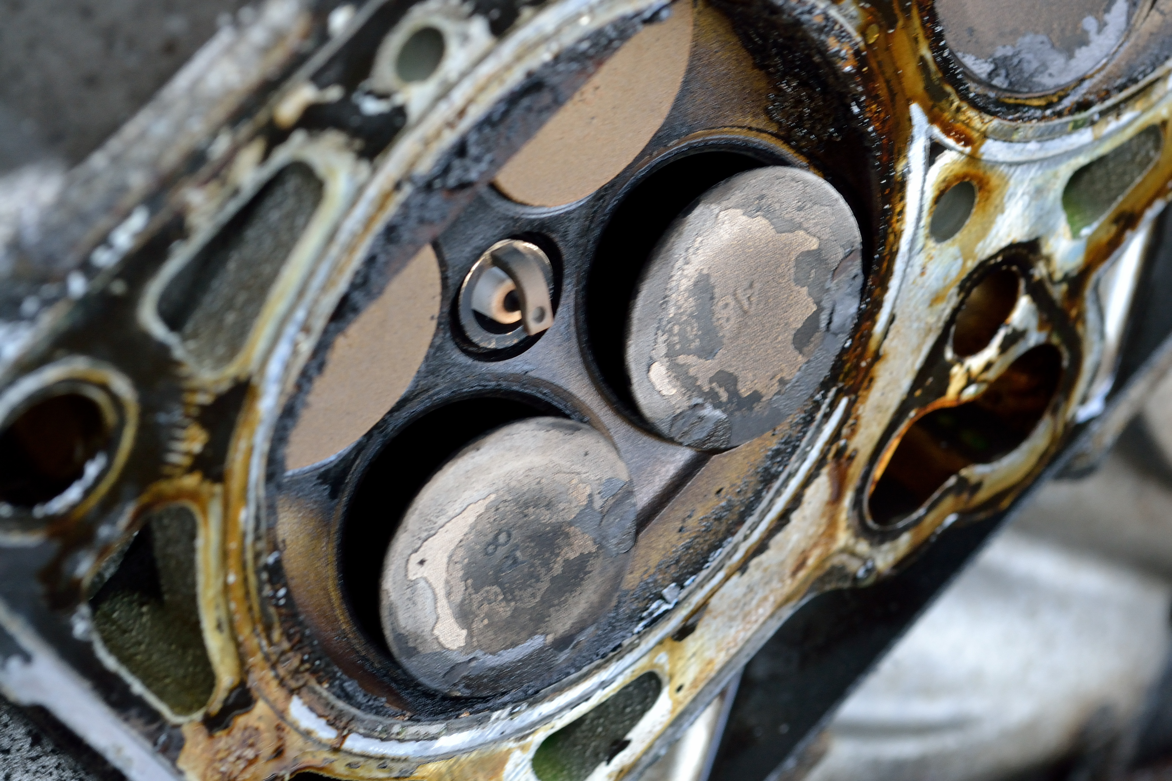 Intake valves in the cylinder head of a Hyundai Beta II engine that are bent after they collided with the piston at roughly 2300 RPM as a result of the breakage of the timing belt.